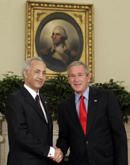 Iraqi Ambassador to the US Samir Shakir Mahmoud and US President George Bush in an Oval Office ceremony.